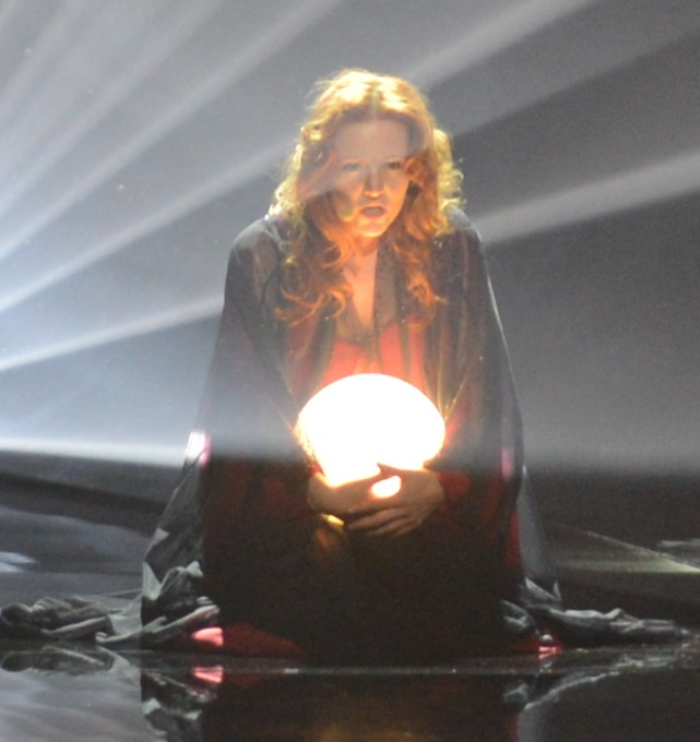 Valentina Monetta from San Marino performing her song Crisalide in a dress rehearsal for the second semi final of the Eurovision Song Contest 2013.